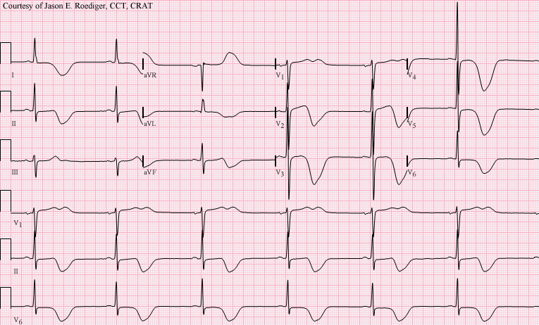 70-year-old Hispanic man with clinical picture of left middle cerebral artery (MCA) stroke.